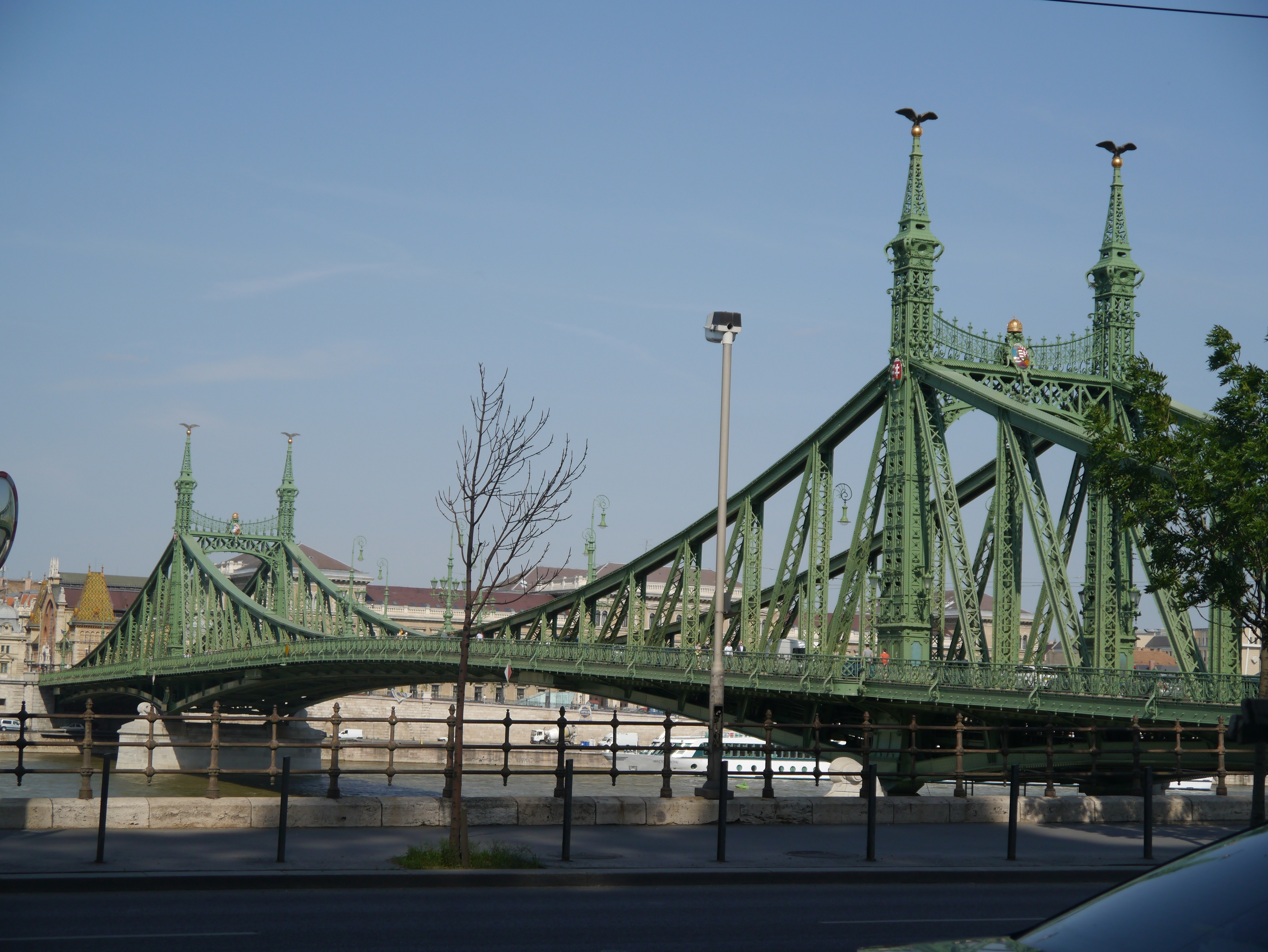 Liberty bridge, Budapest, Northern Hungary